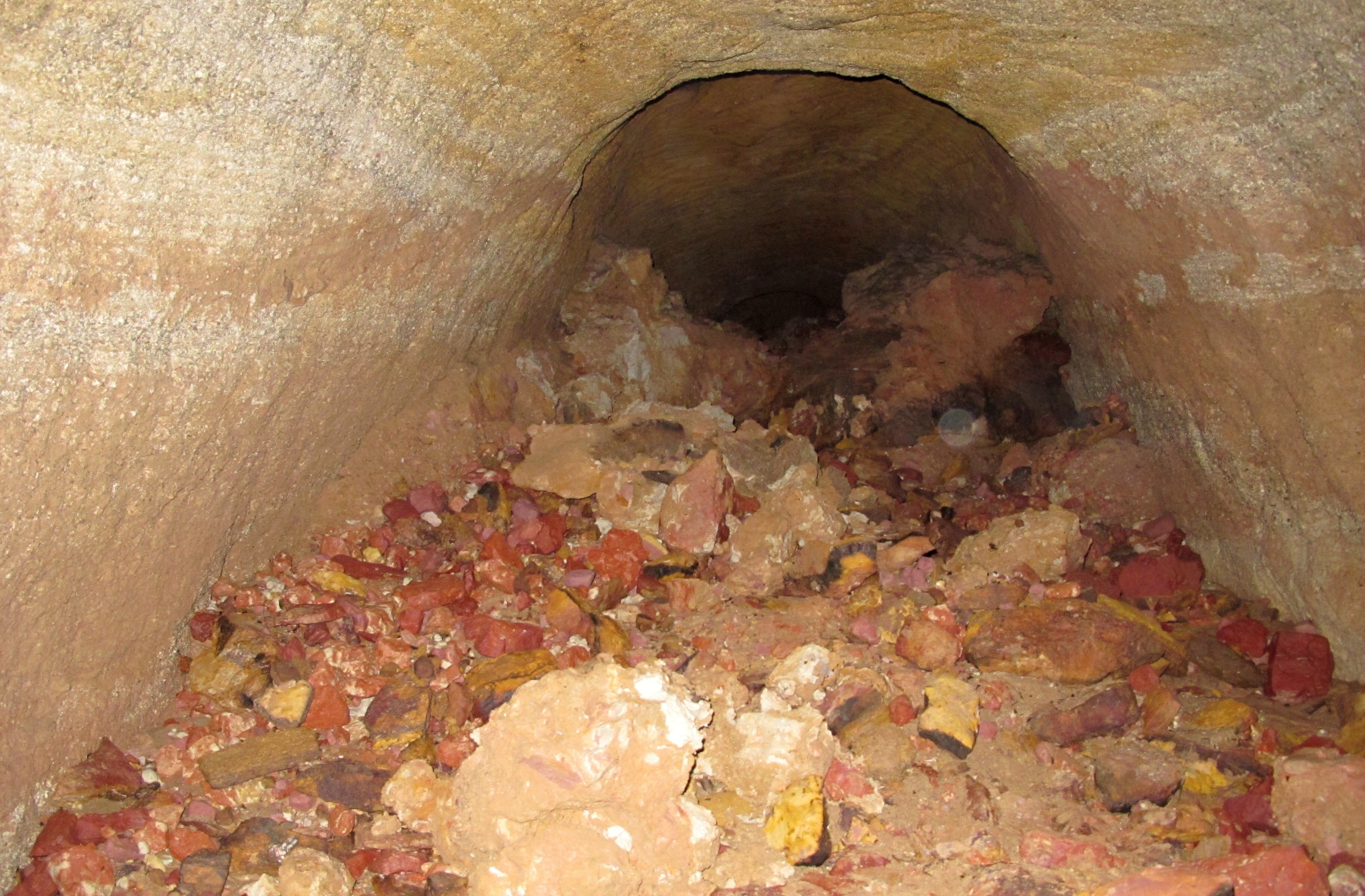 Natural monument Orty near villages Hosín, Borek a Hrdějovice in České Budějovice District